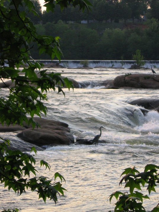 View from north shore of belle isle, Richmond, VA.